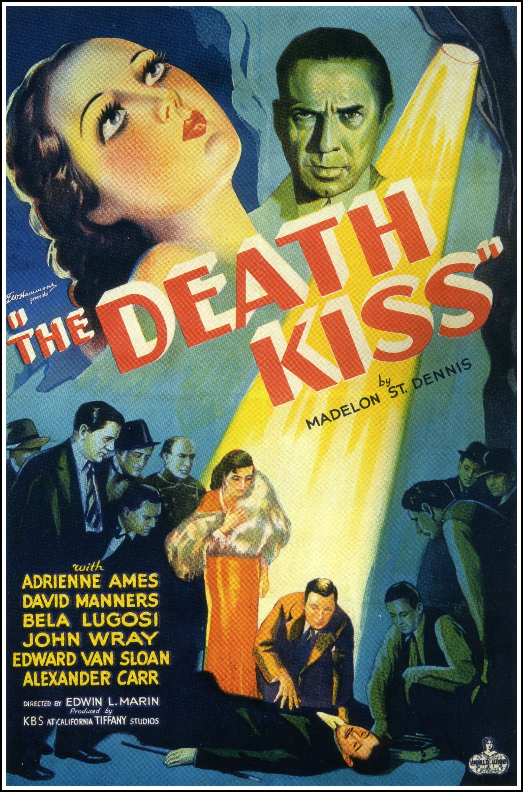 Poster for the American pre-Code mystery film The Death Kiss (1932). The item has no copyright markings on it as can be seen in the links above. The mark at lower right is a logo for the union print shop who produced the poster.